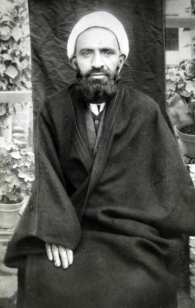 Muhammad Taqi Amoli (id 19676)